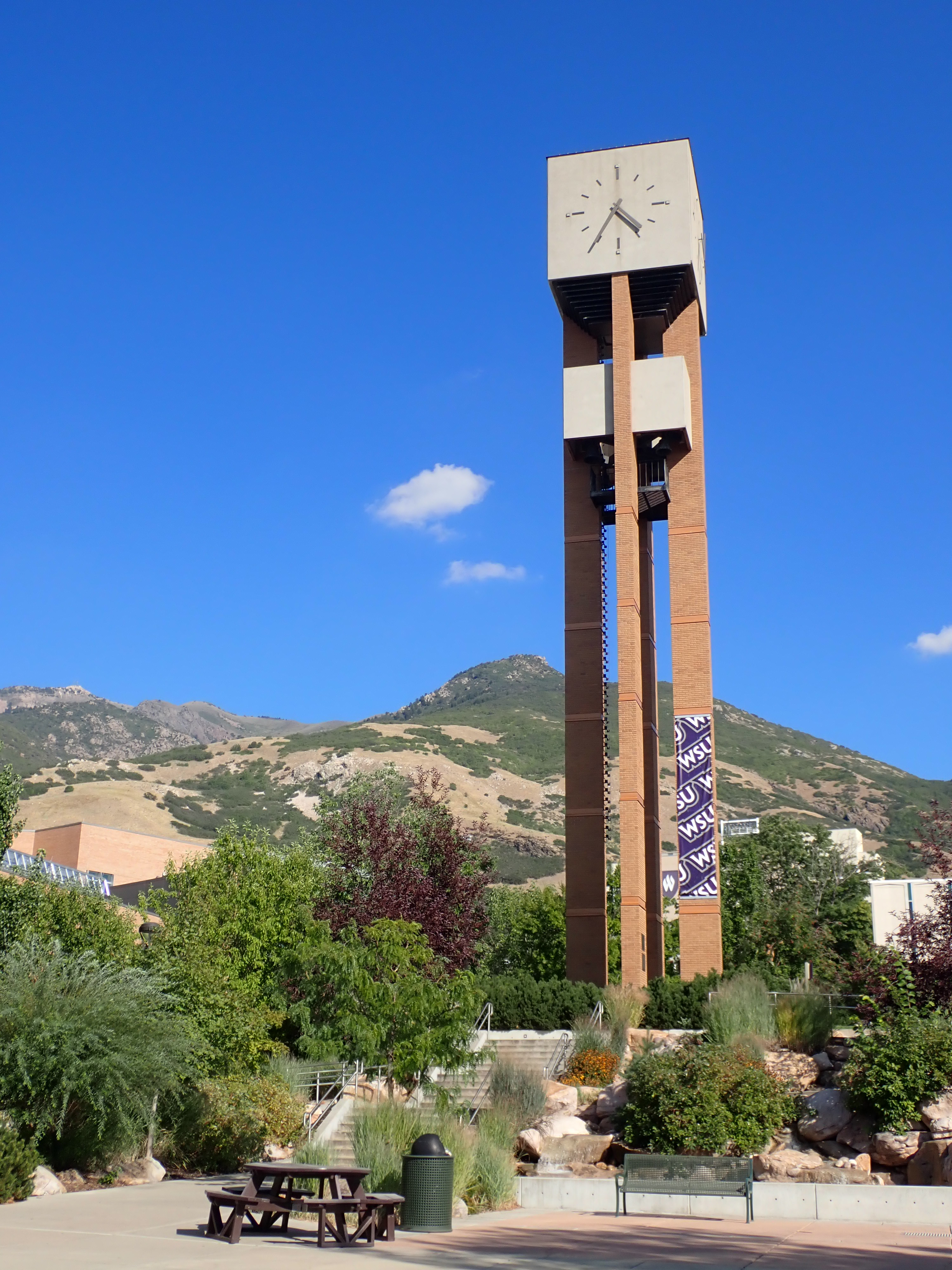 Tower, Weber State University Ogden, Utah, USA